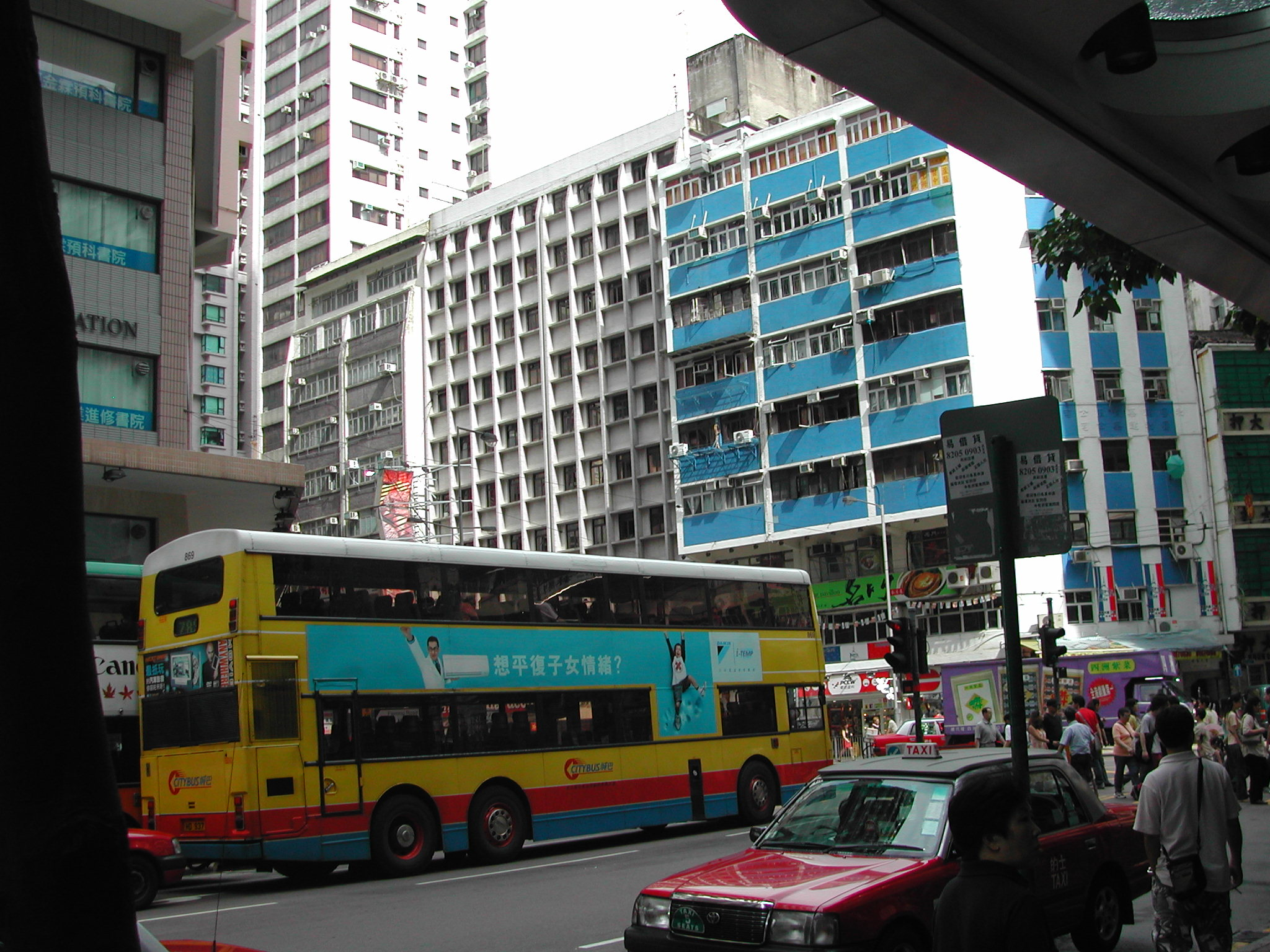 Busy streets in Wan ChaiIntersection of Fleming Road, Johnston Road and Wan Chai Road